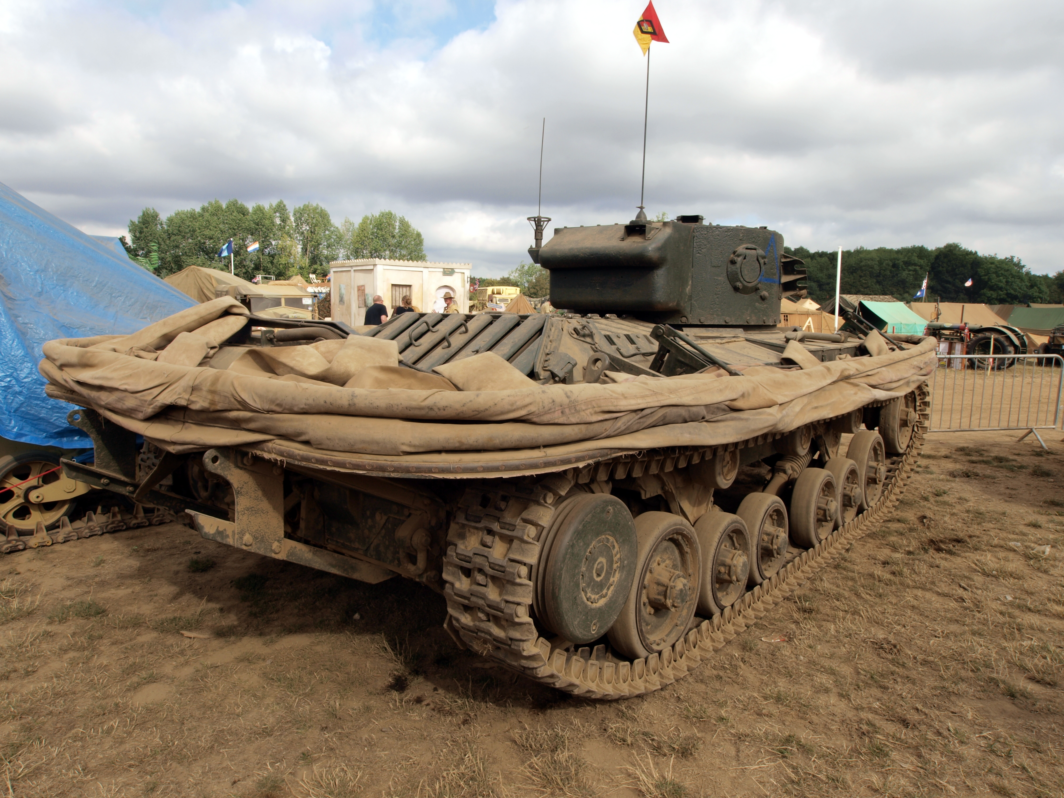 Valantine Mk IX DD (Duplex Drive) (1943) owned by John Pearson